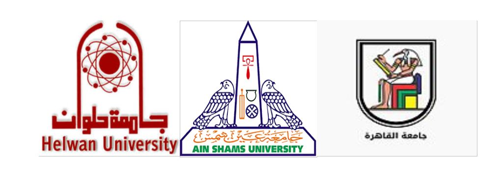 Cairo university, Ain shams university ,and Helwan university